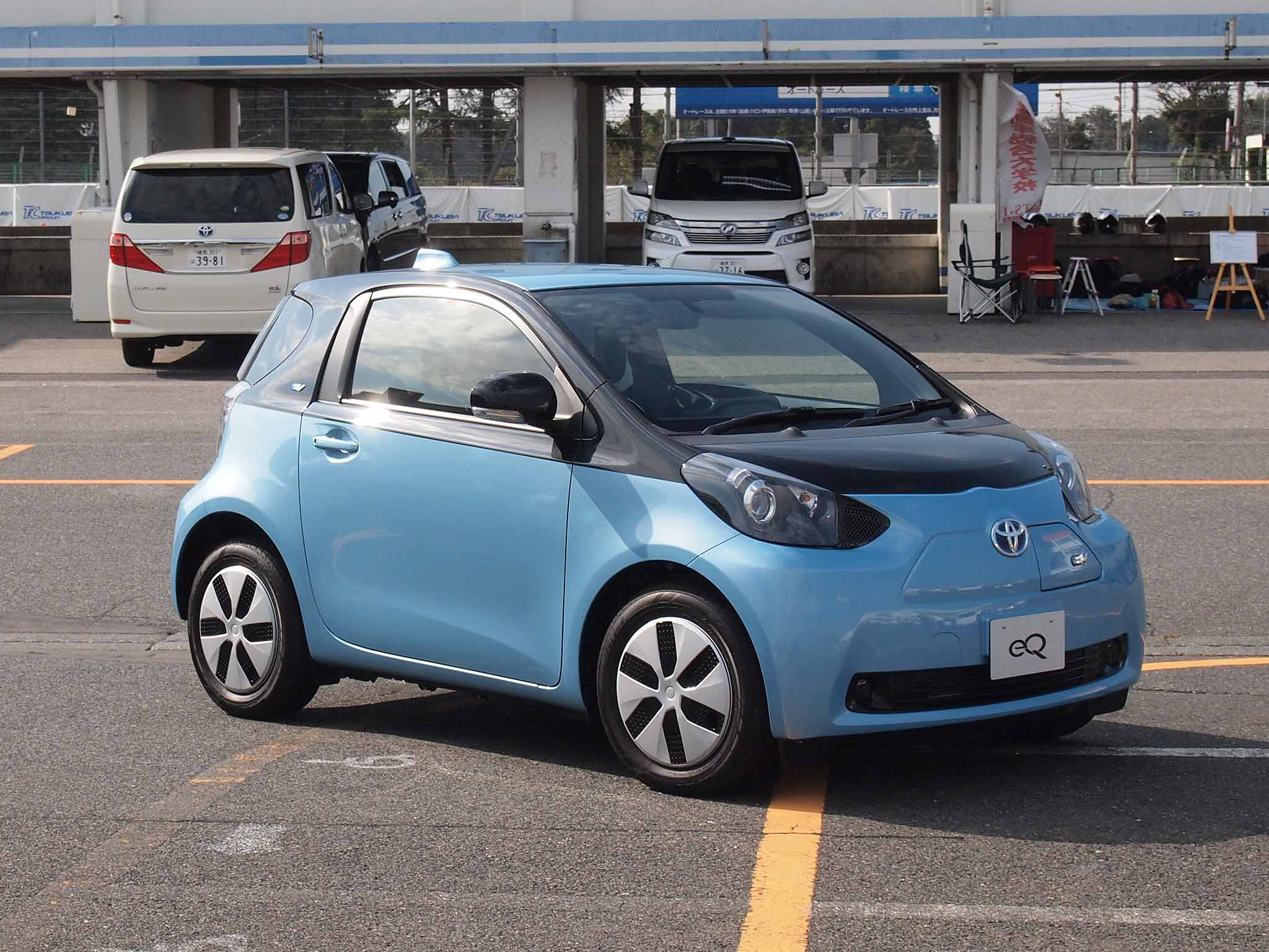 Toyota eQ, electric vehicle of Toyota iQ, demonstrated at Japan EV Festival 2012 in Tsukuba Circuit.